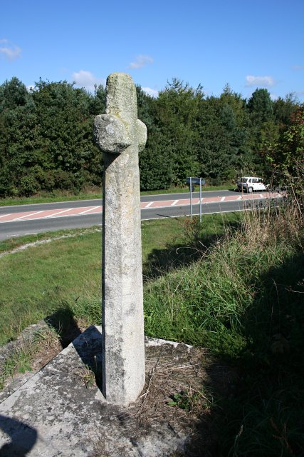 A Stone Cross. This unadorned cross is perched on at the top of the verge by a junction east of Grampound.